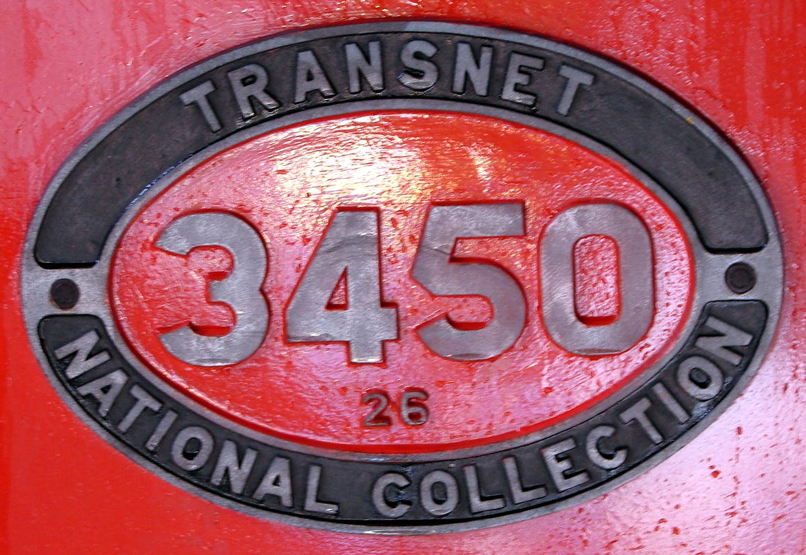 SAR Class 26 3450 (4-8-4) Transnet National Collection replacement number plate Builder's Number: Henschel 28769 Rebuilding: Rebuilt from Class 25NC Location: Monument Station, Cape Town